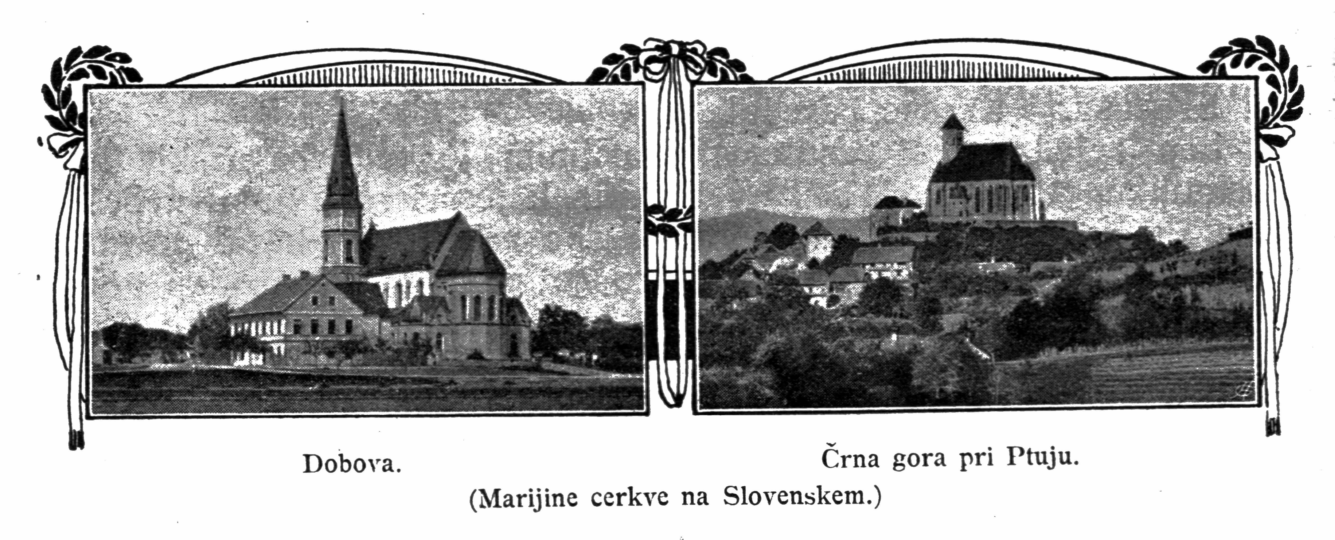 Photos of churches in Dobova and Ptuj-Črna Marija